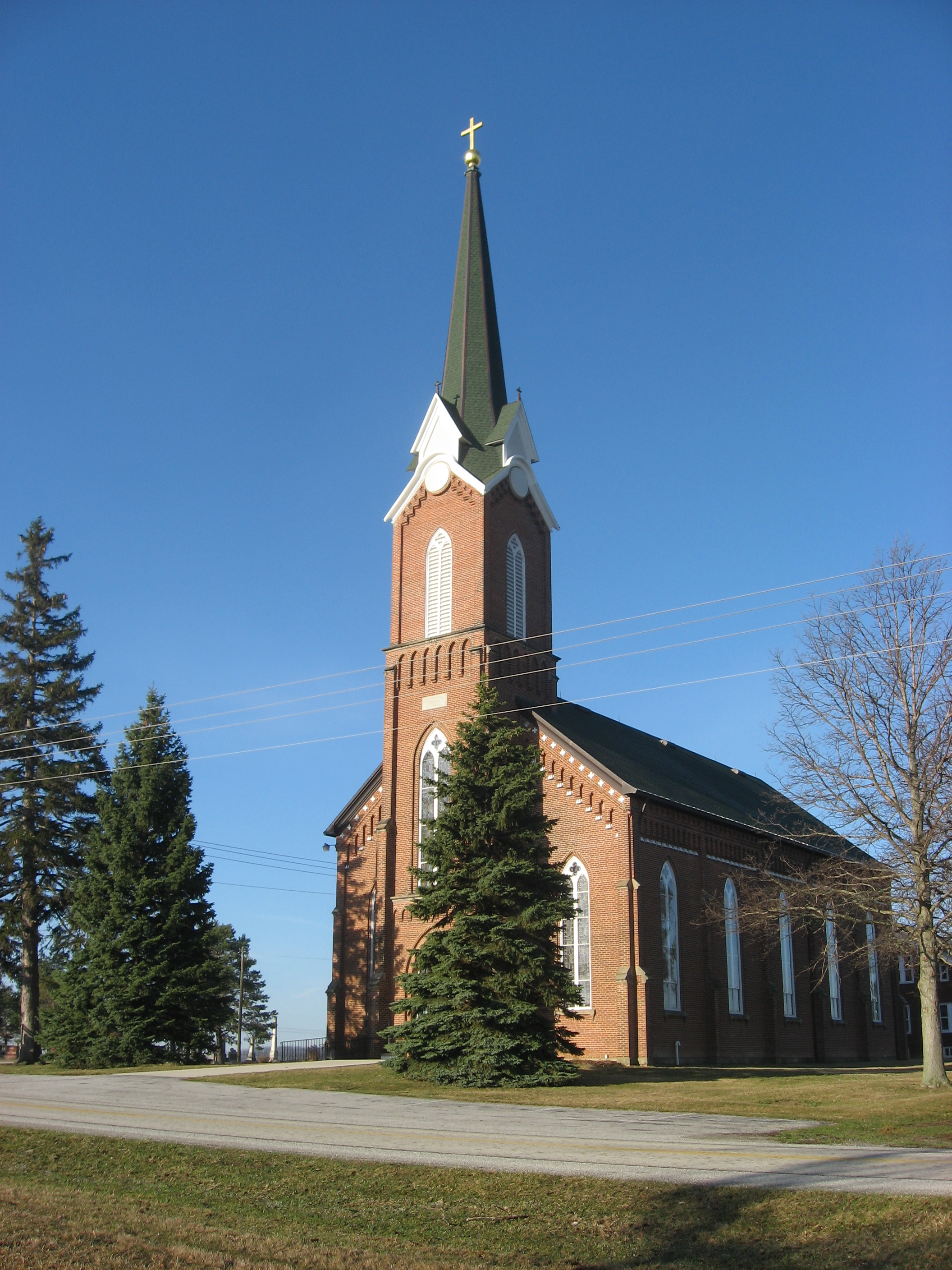 Front and northern side of St. Patrick's Church in Glynwood, an unincorporated community in Moulton Township, Auglaize County, Ohio, United States. Built in 1883, the church was listed on the National Register of Historic Places as a part of the Cross-Tipped Churches of Ohio Thematic Resources.